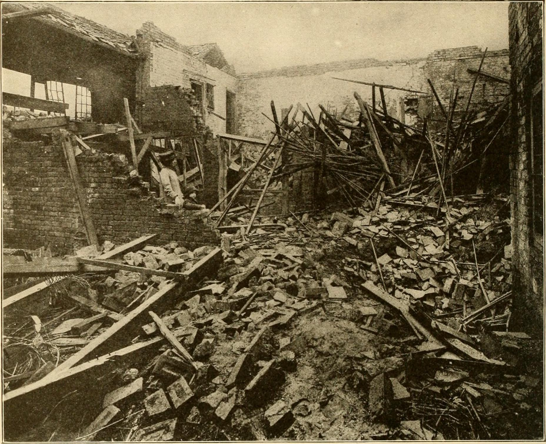 Title: The people's war book; history, cyclopaedia and chronology of the great world war Year: 1919 (1910s) Authors: Miller, J. Martin (James Martin), b. 1859 Canfield, Harry S. (from old catalog), joint author Plewman, William Rothwell, 1880- (from old catalog) Foch, Ferdinand, 1851-1929 Lloyd George, David, 1863-1945 United States. President (1913-1921 : Wilson) Subjects: World War, 1914-1918 World War, 1914-1918 Publisher: Cleveland, O., The R.C. Barnum co. Detroit, Mich., The F.B. Dickerson co. (etc., etc.) Text Appearing Before Image: ussias surrender ofPoland, Courland, Lithuania, Livonia andEsthonia. The independence of Ukraiuiaand Finland was to be recognized, relin-quishing all Russian territorial claim onboth. Batoum and other districts in Trans-caucasia were surrendered to Turkey. Anindemnity variously estimated at from $1,-500,000,000 to $4,000,000,000 was exacted.This treaty robbed Russia of four per centof her total area, 26 per cent of her popula-tion, 27 per cent of her agricultural landnormally cultivated, 26 per cent of her rail-ways and 75 per cent of her coal and ironresources. The withdrawal of Russia forced Rou-mania out. Since she had been crushed byvon Mackensen and von Falkenheyn, slichad not been a considerable factor in tlicwar. But absolutely without support, sliowas forced to sign an ignominious peace onMarch 4th, based on the terms of Brest-Litovsk. This also made possible the au-tonomy of Besserabia, of course, accordingto German plan, to be under control ofBerlin. 138 THE PEOPLES WAR BOOK Text Appearing After Image: London air raid. Mother and son inspecting their home. They returned home from a visit and this mass of debris greeted their eyes.